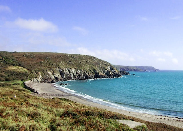 Kennack Sands The eastern end of Kennack Sands seen from the little headland that divides the beach. The flat grey object in the foreground is a WW2 pillbox and the seawall at the head of the beach is an old anti-tank defence. The beach and the area around it is part of the Lizard National Nature Reserve.